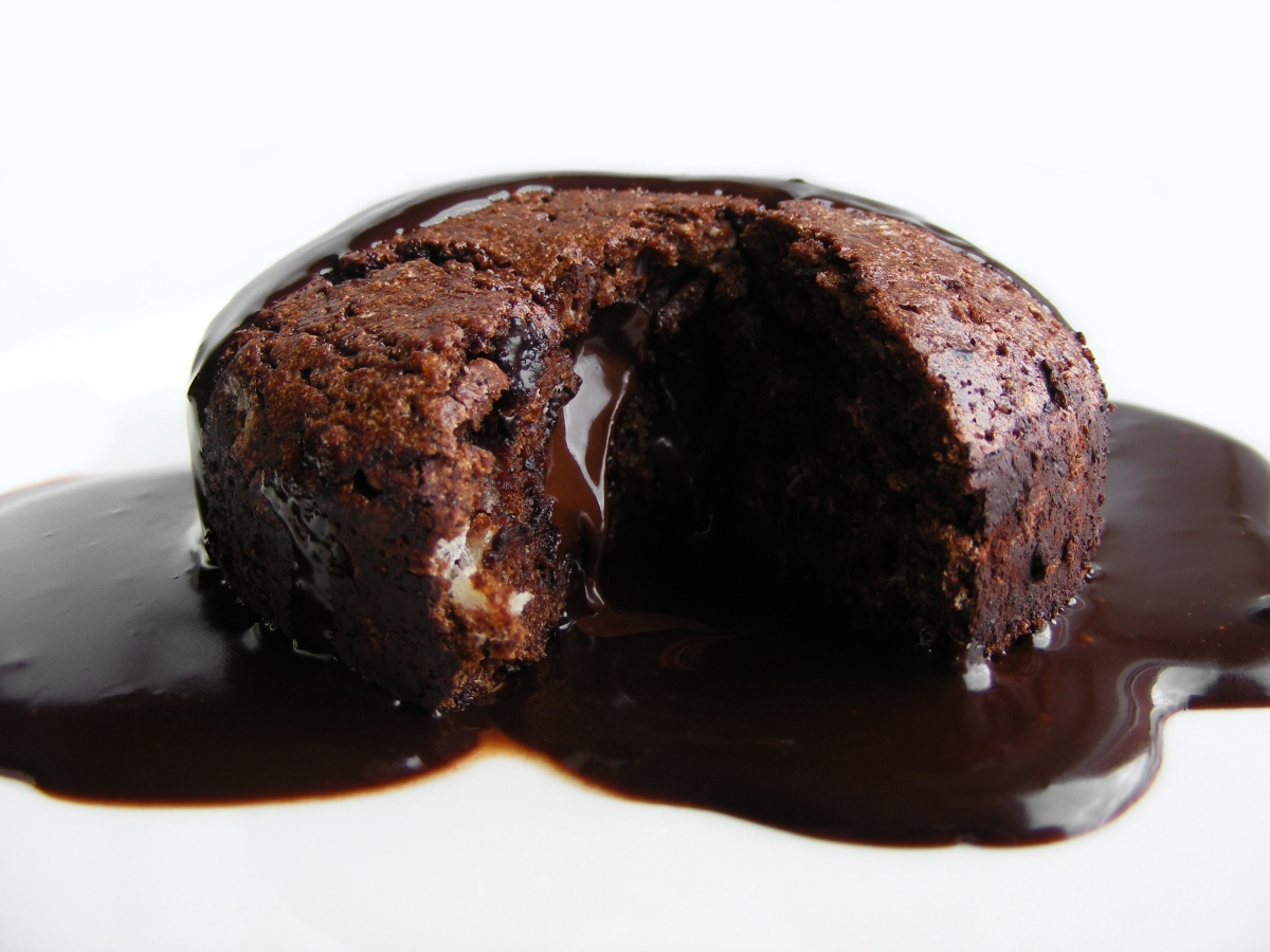 Quick & easy recipe for Chocolate Fondant from James Martin. For the recipe click: here I made some alterations: in the pastry I used palmsugar instead of caster sugar. And in the chocolate sauce I even used gulu djawa. And not water but cream. They turned out quite okay for a first attempt. I only made them because I was bored, I'm not really a big fan of chocolate fondant. You make me happier with a good bar of chocolate or box of chocolates. And I cheated, I added 2 pieces of chocolate in the center of the ramequins. I thought that was brilliant.